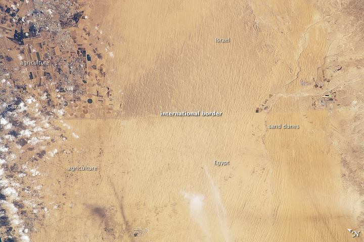 Israel-Egypt-Gaza border region A clearly visible line marks about 50 kilometers of the international border between Egypt and Israel in this astronaut photograph from the International Space Station. The reason for the color difference is likely a slightly higher level of grazing by the Bedouin-tended animal herds on the Egyptian side of the border. A major highway also follows the borderline, making the demarcation more prominent in this image. A patch of the Gaza Strip appears under scattered clouds at image left. The image shows how the active sand dunes, which dominate most of the landscape in this view, mark the southern limit of the agriculture. In the arid to semiarid climate of the region, the natural grass vegetation is sparse at best. Irrigated commercial agriculture in Israel appears as a series of large angular patterns and circular center pivot fields. Darker greens indicate actively growing crops (image left). Smaller plot sizes appear on the Egyptian side of the border at image lower left.